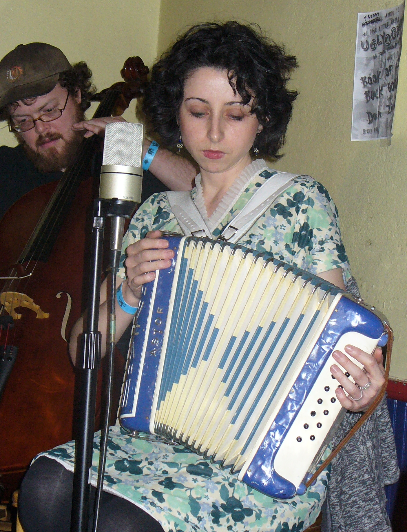 Antonia Begonia performs with Jonathan Vassar on accordion at Little Grill Collective in Harrisonburg, Virginia as part of MACRoCk 2009. Josh Quarles on cello (in back).